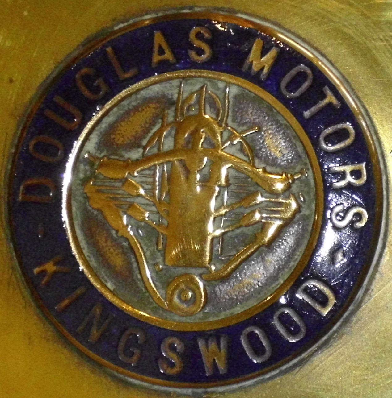 Emblem Douglas